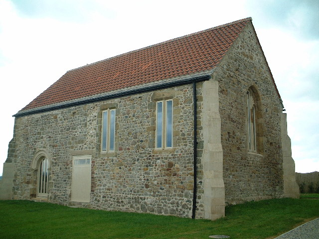 Former chantry chapel of St Mary Magdalen, Thrintoft, North Yorkshire. Converted formerly into a barn and latterly into a house.